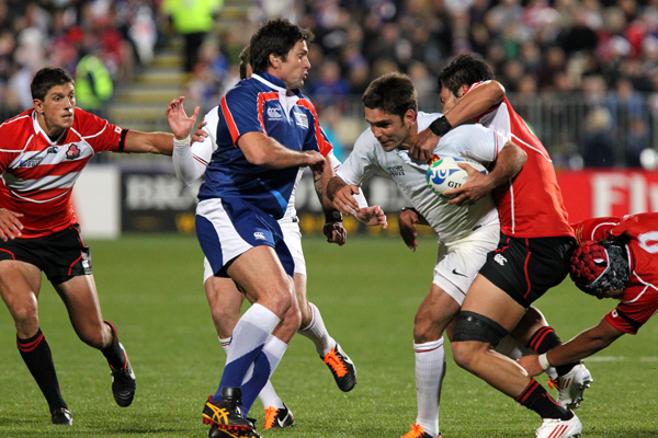 Steve Walsh while refereeing France - Japan at the 2011 IRB Rugby World Cup